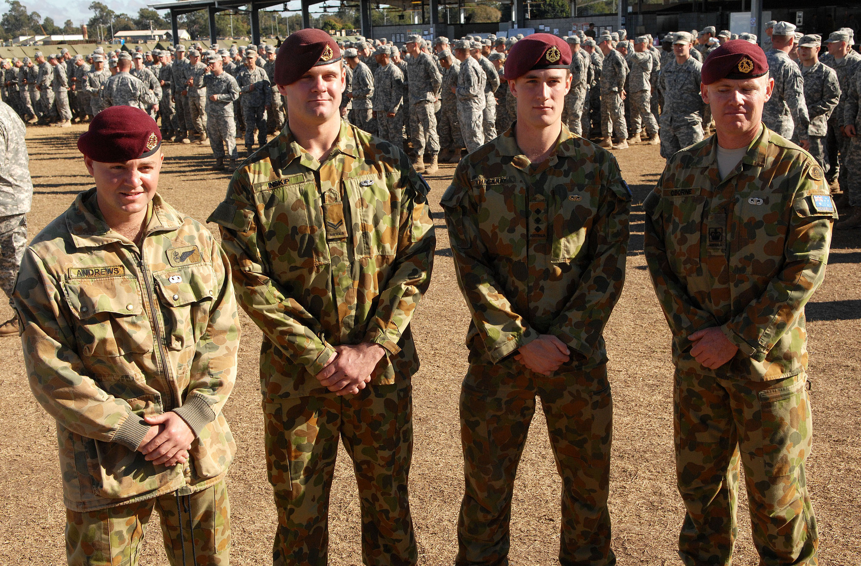 Australian Defence Force personnel Cpl. Ryan Andrews, Cpl. Patrick Inskip, Capt. Sam Thackray and Warrant Officer Class 2 Jamie Osborne, with the 3rd Battalion, Royal Australian Regiment, display their American airborne wings. The 3rd Battalion, RAR, jump masters exchanged their nation's airborne wings with U.S. Army 1st Battalion (Airborne), 501st Infantry Regiment, from Joint Base Elmendorf-Richardson, Alaska, after a tactical parachute insertion during Talisman Sabre 2011. TS11 is an exercise designed to train U.S. and Australian forces to plan and conduct Combined Task Force operations to improve combat readiness and interoperability on a variety of missions from conventional conflict to peacekeeping and humanitarian assistance efforts. (Photo by Staff Sgt. Matthew Winstead)